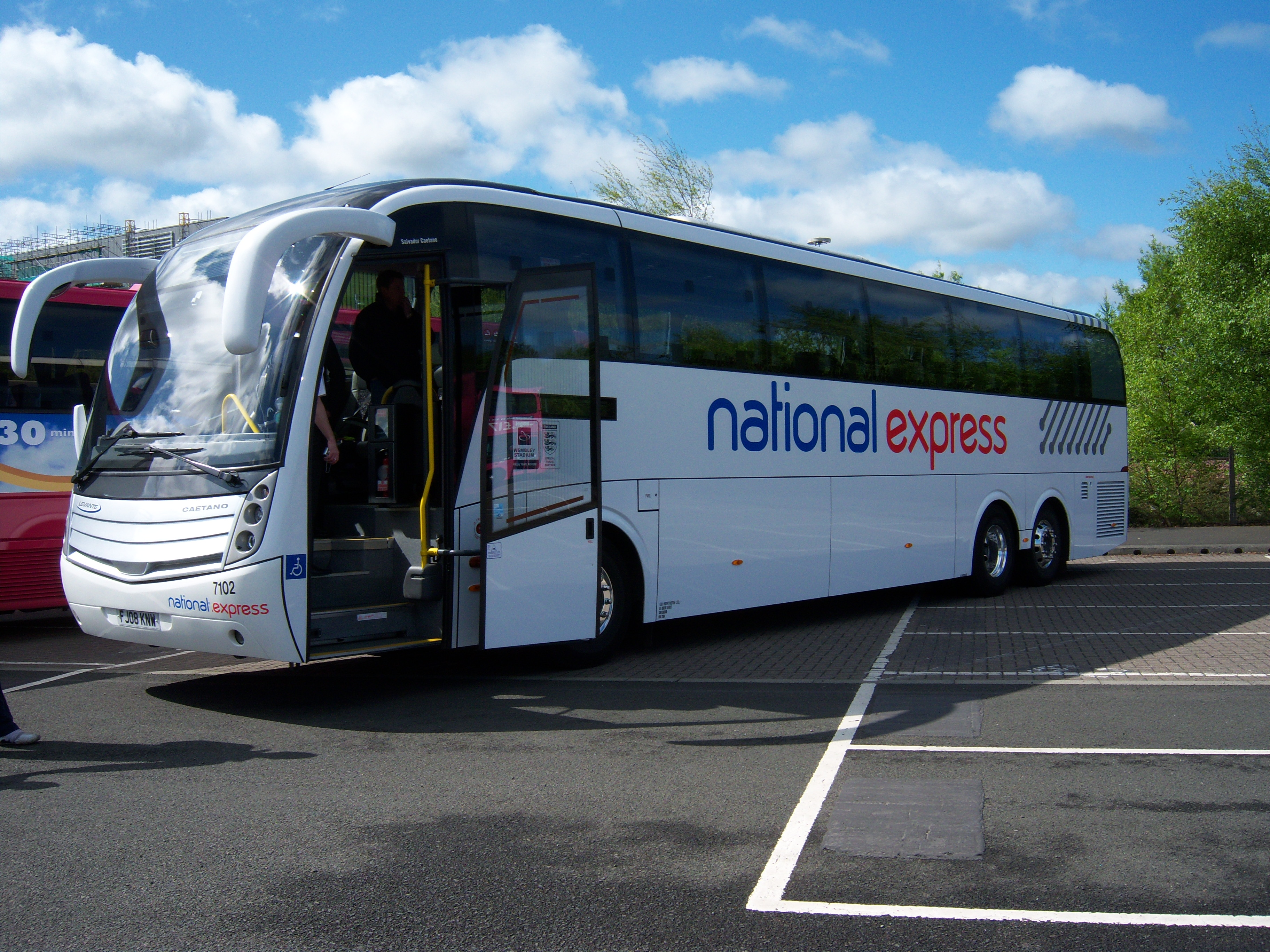 Go North East 7102 (FJ08 KNW), a Scania K340EB6/Caetano Levante coach, which is used on the National Express services that Go North East runs. It is seen here at the 2009 Metrocentre bus rally.